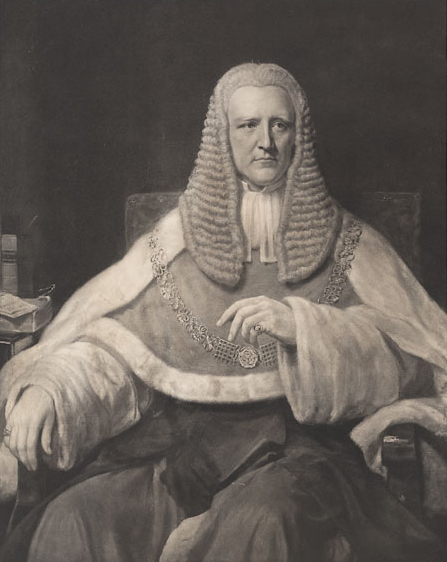 John Coleridge, 1st Baron Coleridge (1820-1894)